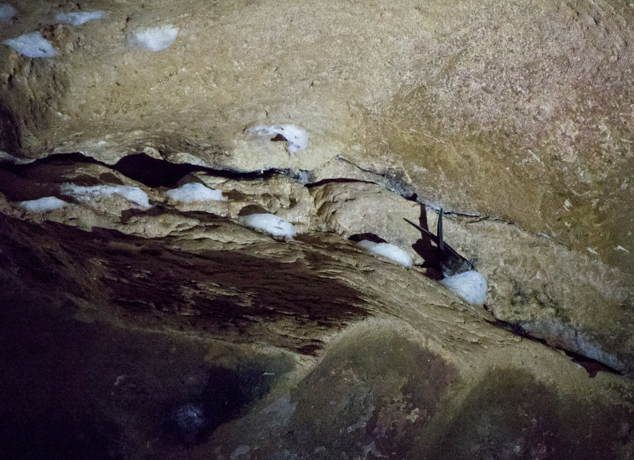 Also known as White-nest Swiftlet, for obvious reasons.